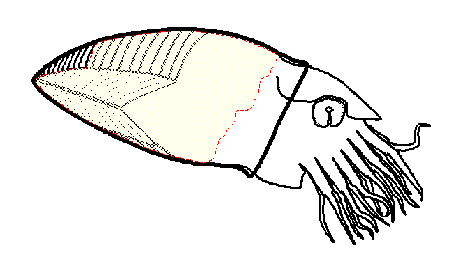 Cropped image of taxon in file name